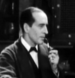 Photo of Arthur Wontner from 1931 film "The Sleeping Cardinal"